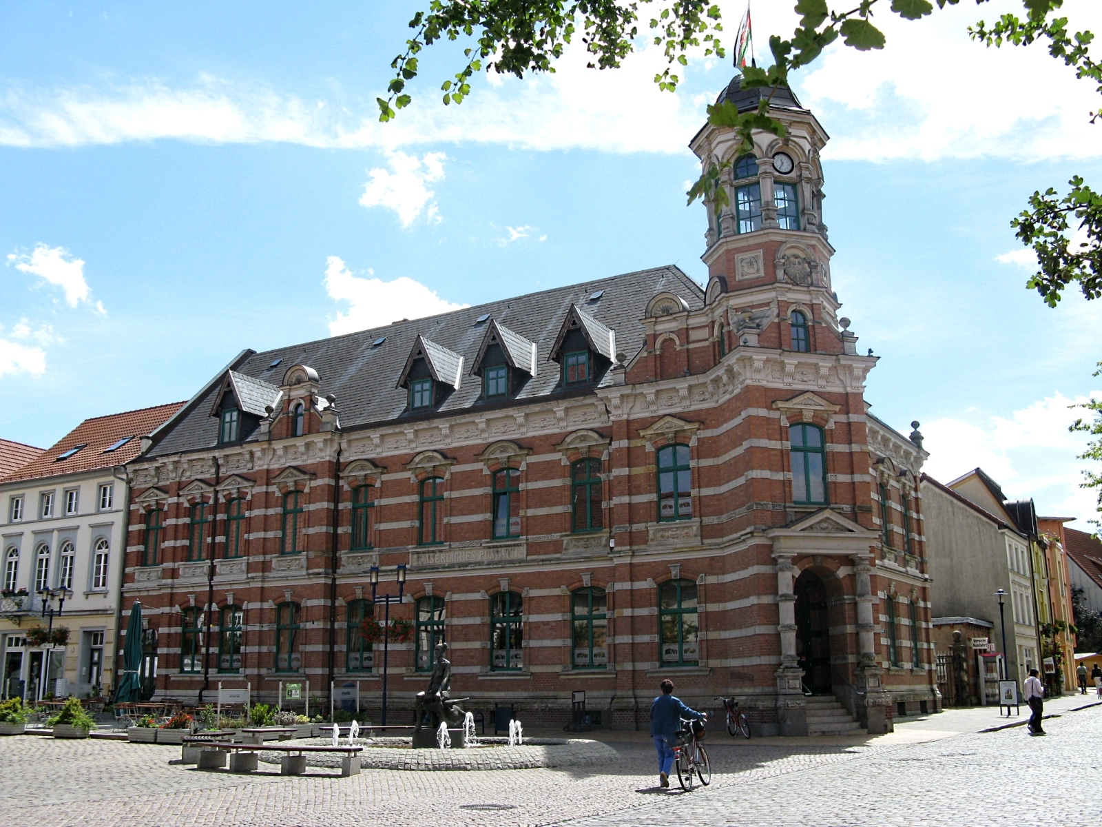 Historical Post Office in Parchim, Mecklenburg-Vorpommern, Germany